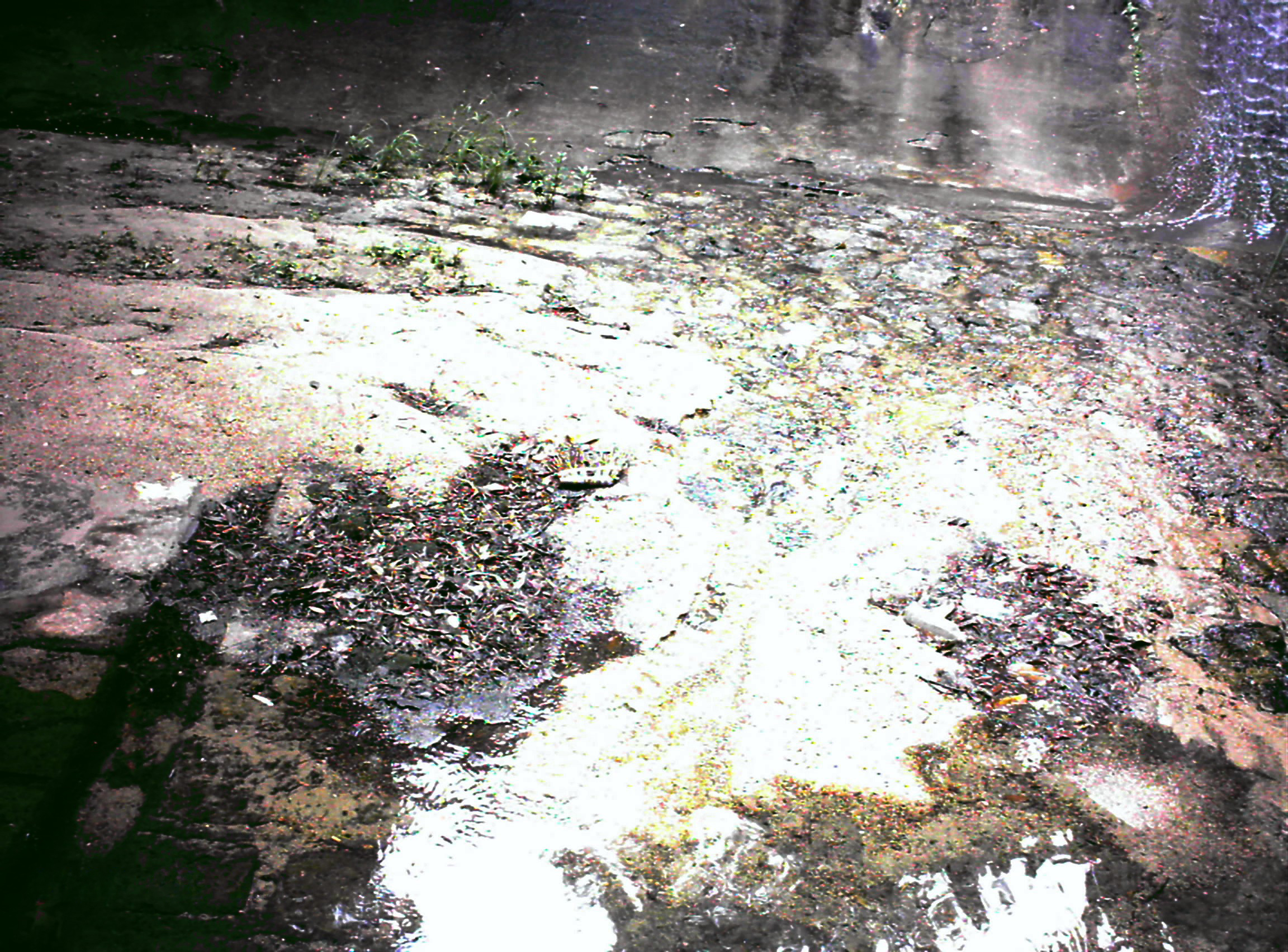 far view Water overflow to form a little waterfall, Lower Reservoir, Siu Sai Wu, Beacon Hill, Kowloon Tong, Hong Kong 中文（香港）: 香港，九龍塘，筆架山，小西湖，下遊蓄水池的水滿溢出堤壩形成小瀑布。(遠眺)